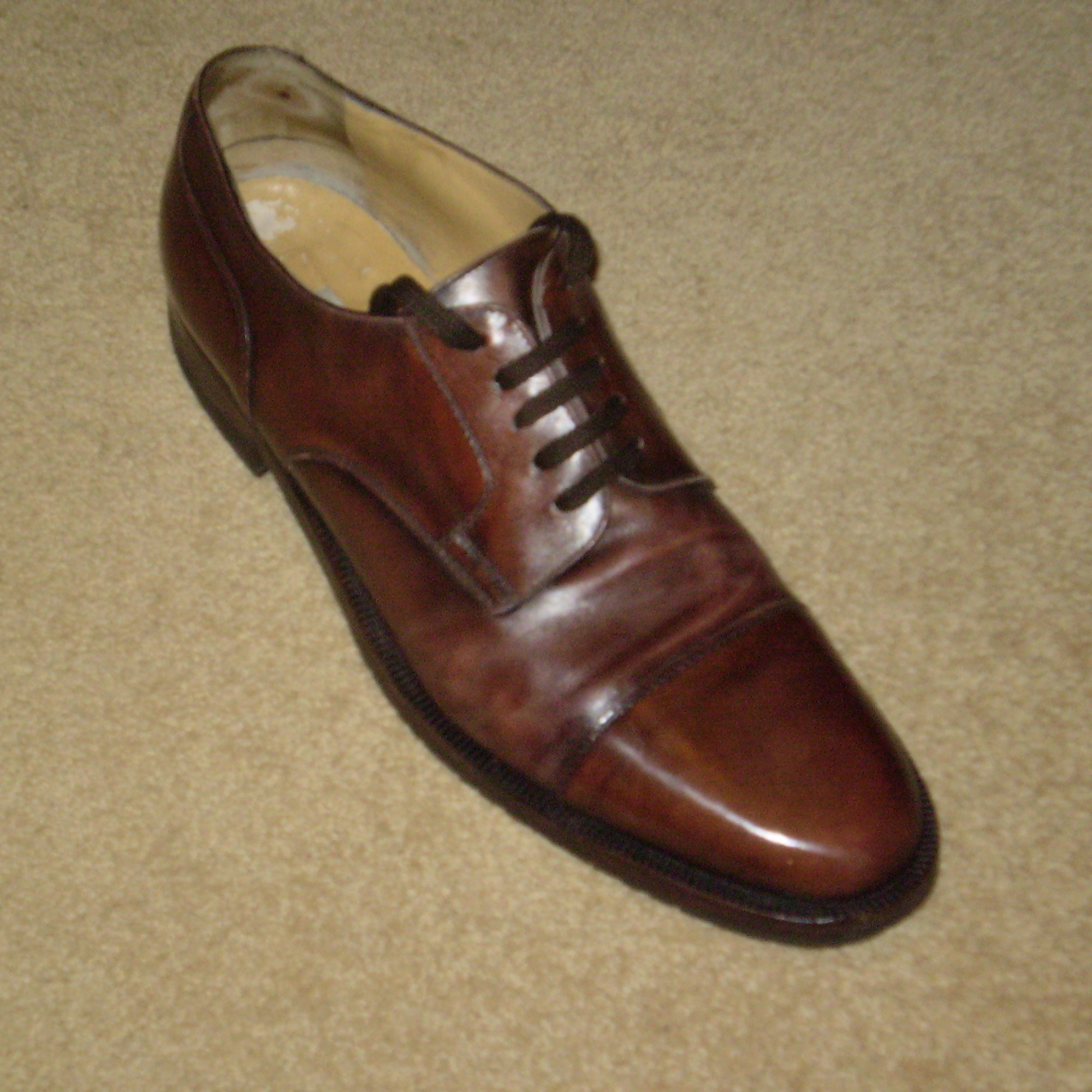 A man's cap toe derby dress shoe